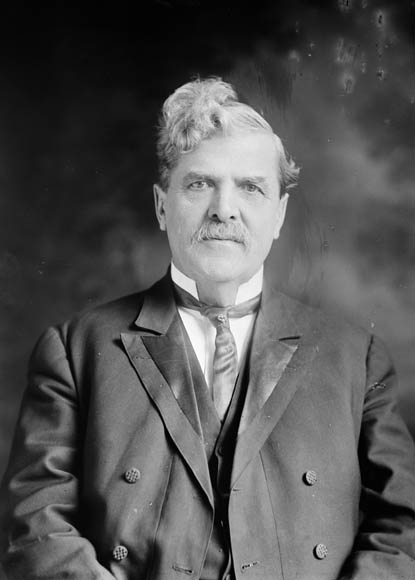 EMMERSON, HENRY ROBERT, lawyer and politician; b. 25 Sept. 1853. d. 9 July 1914 in Dorchester, N.B.